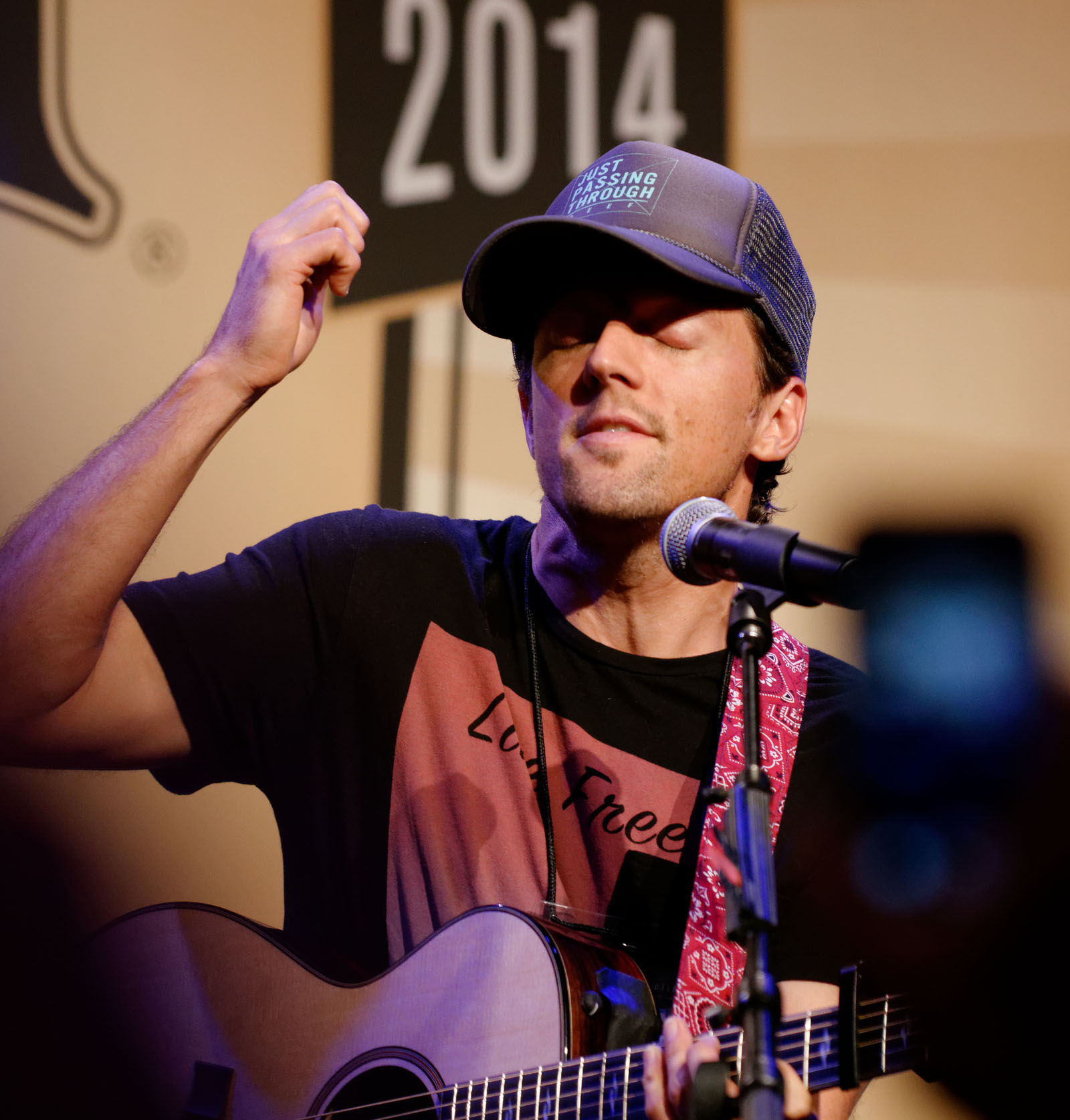 Jason Mraz & Raining Jane (with special guest Andy Powers) performing live at the Taylor Guitars showroom stage. Day 3 (January 25th, 2014) of the Winter NAMM Show in Anaheim California.